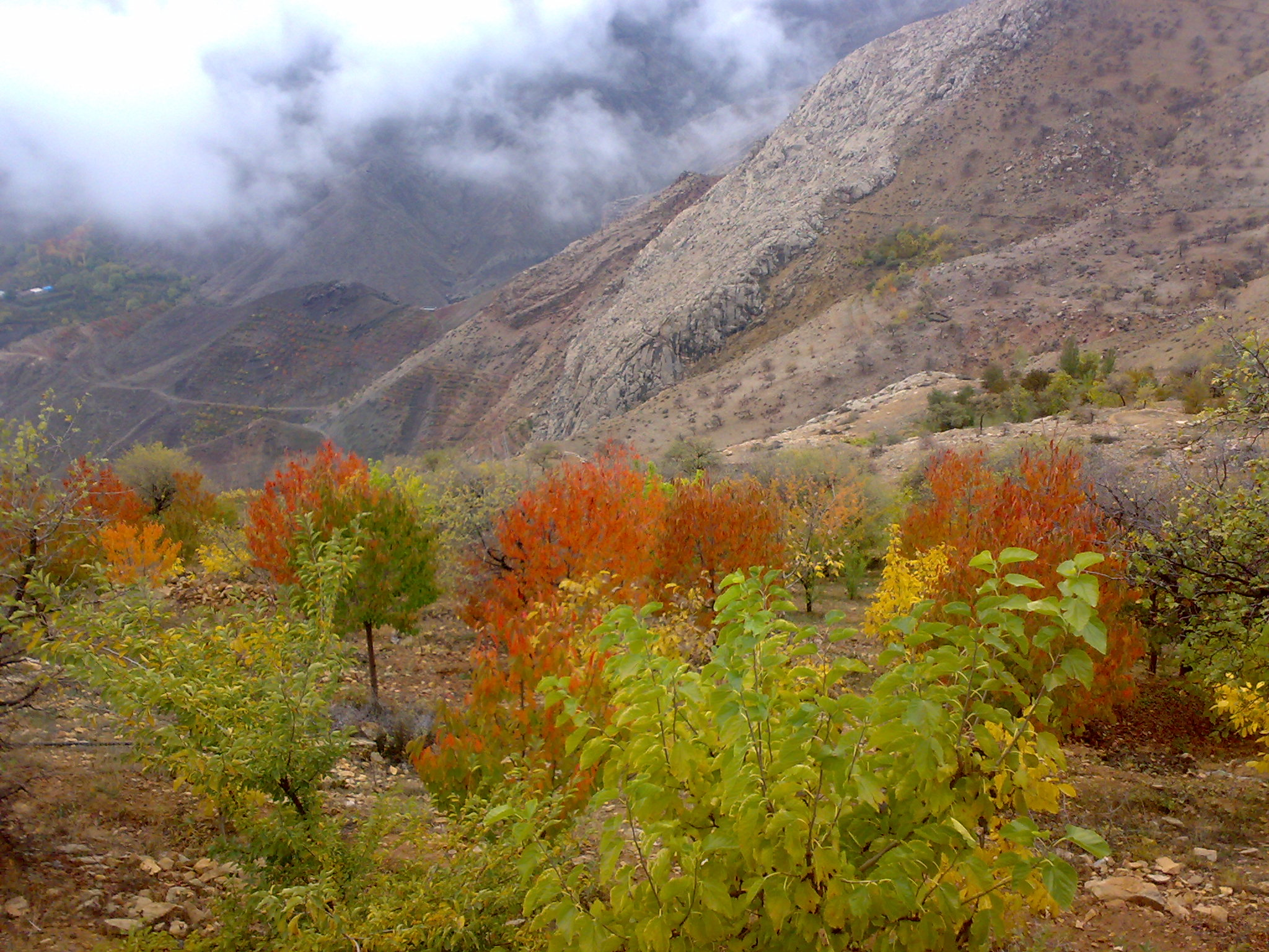 Fall In Hir, Alamut